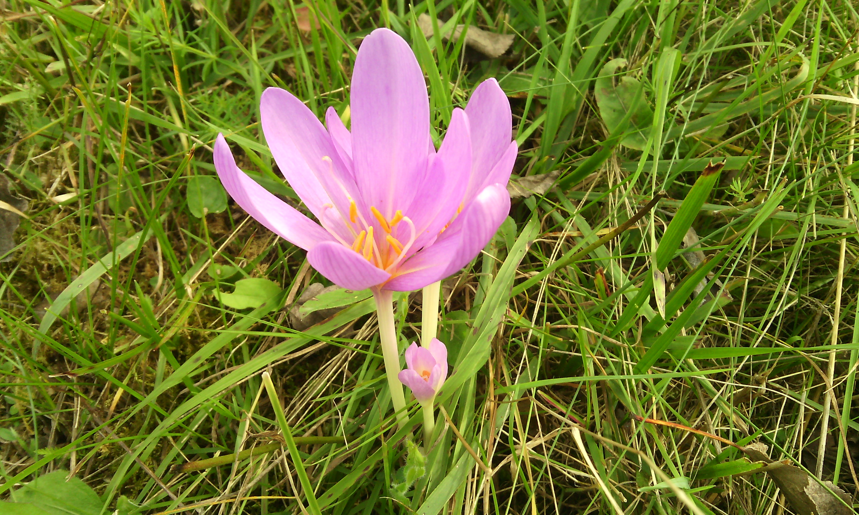 Colchicum autumnale